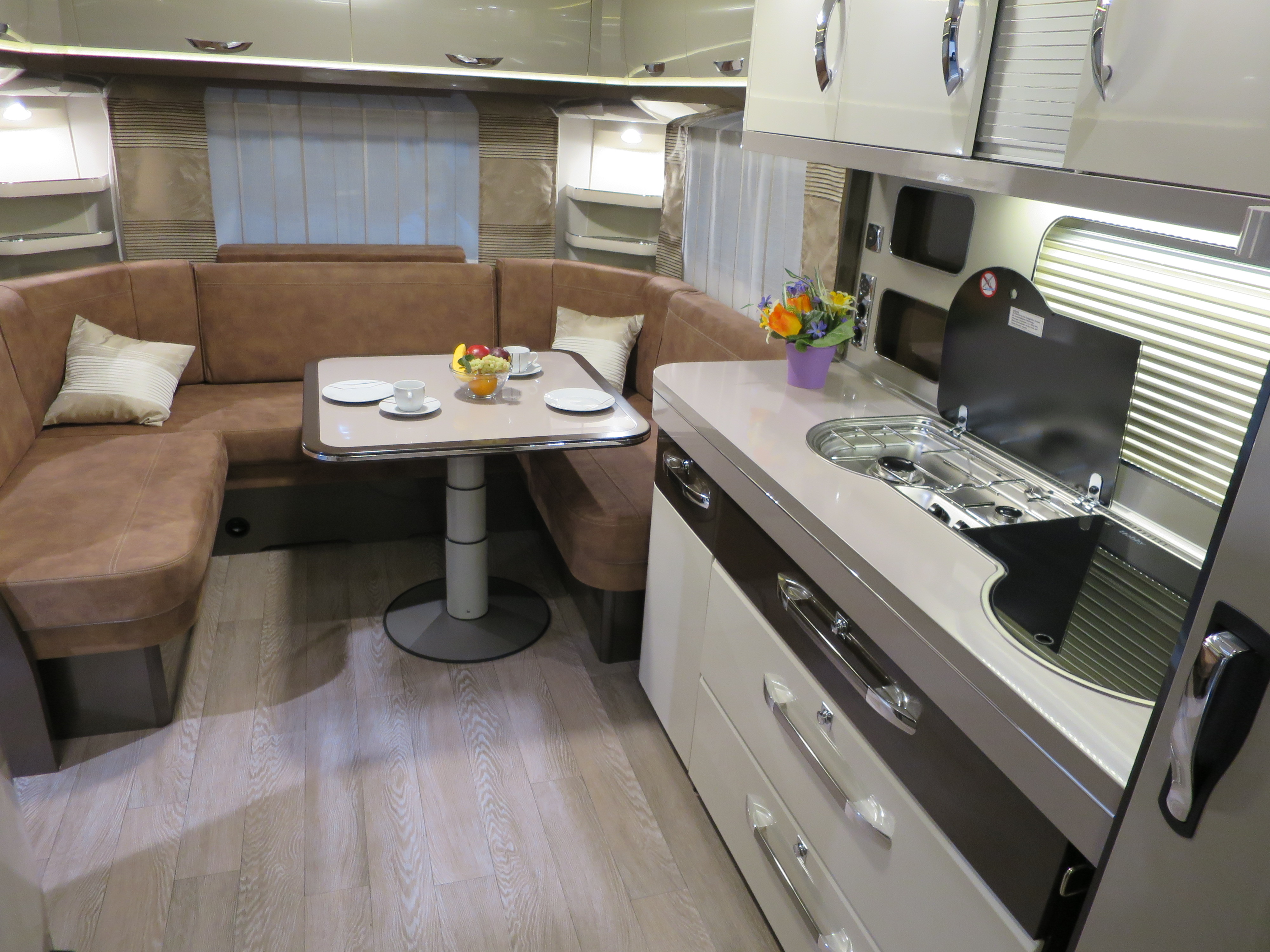 Hobby Premium 650 UFe.